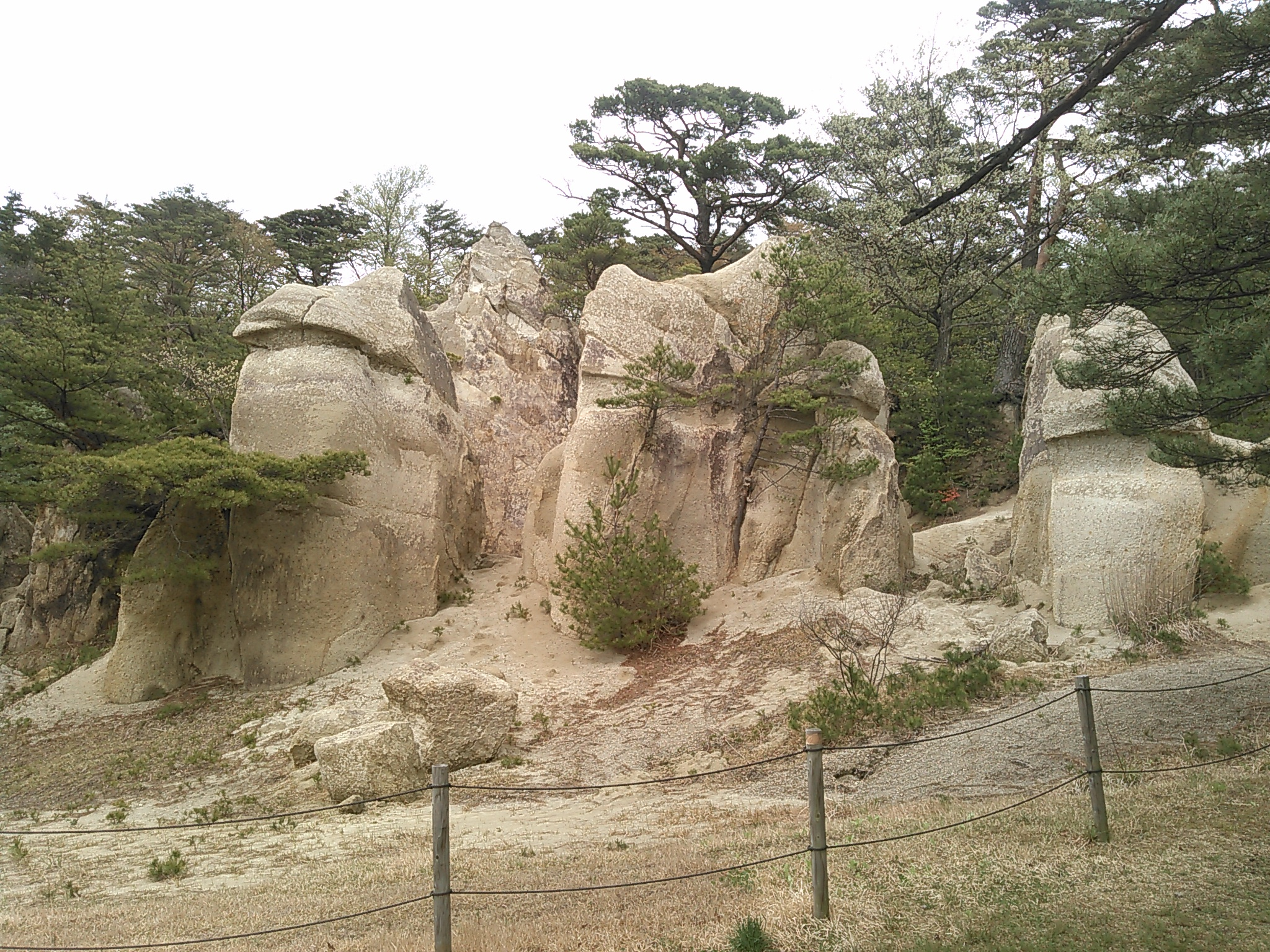 浄土松公園(東日本大震災後)